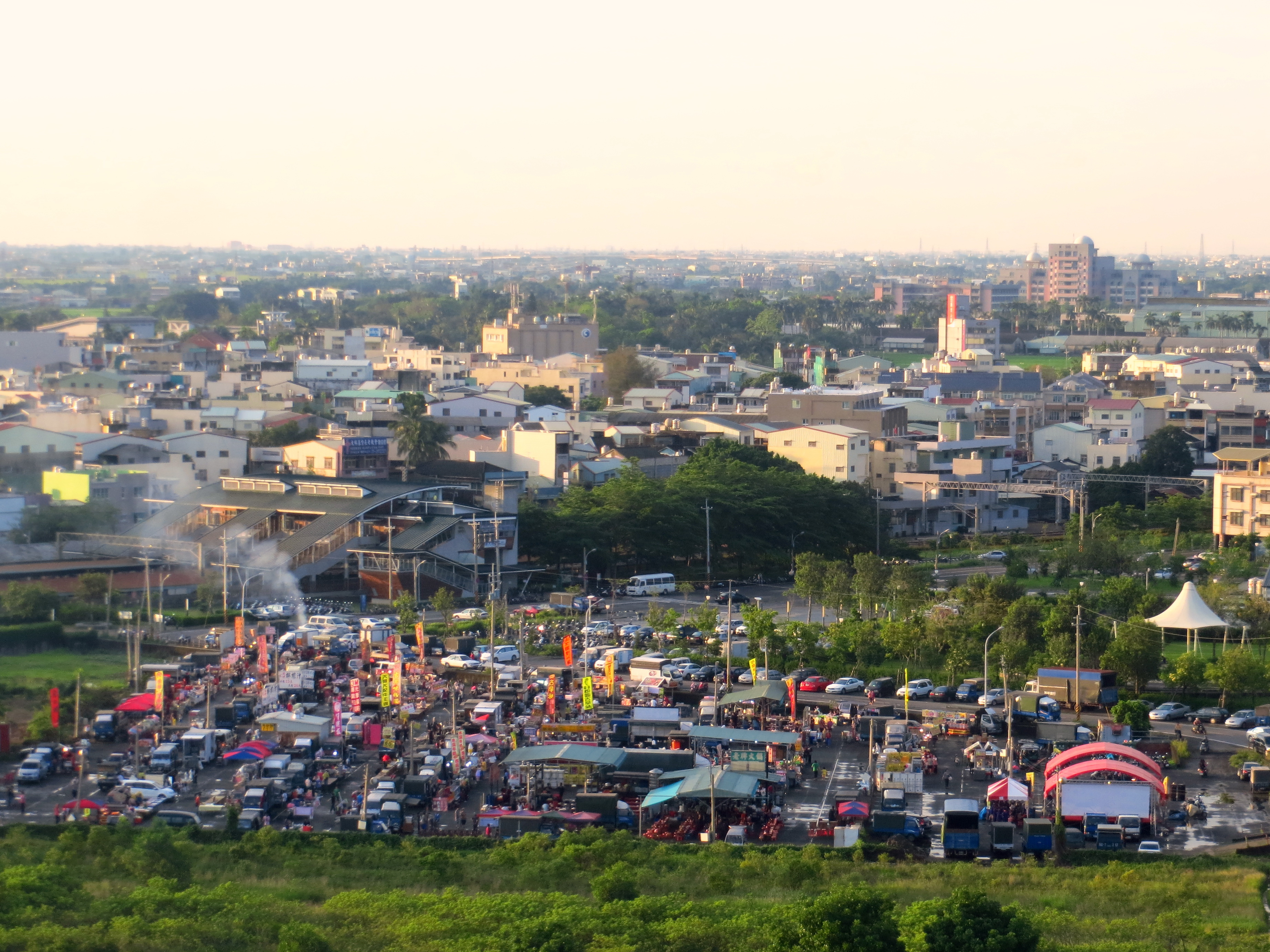 Dalin Night Market, Dalin, Chiayi, Taiwan.